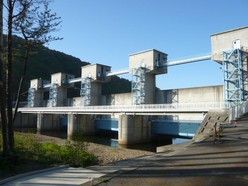 Fudai Floodgate